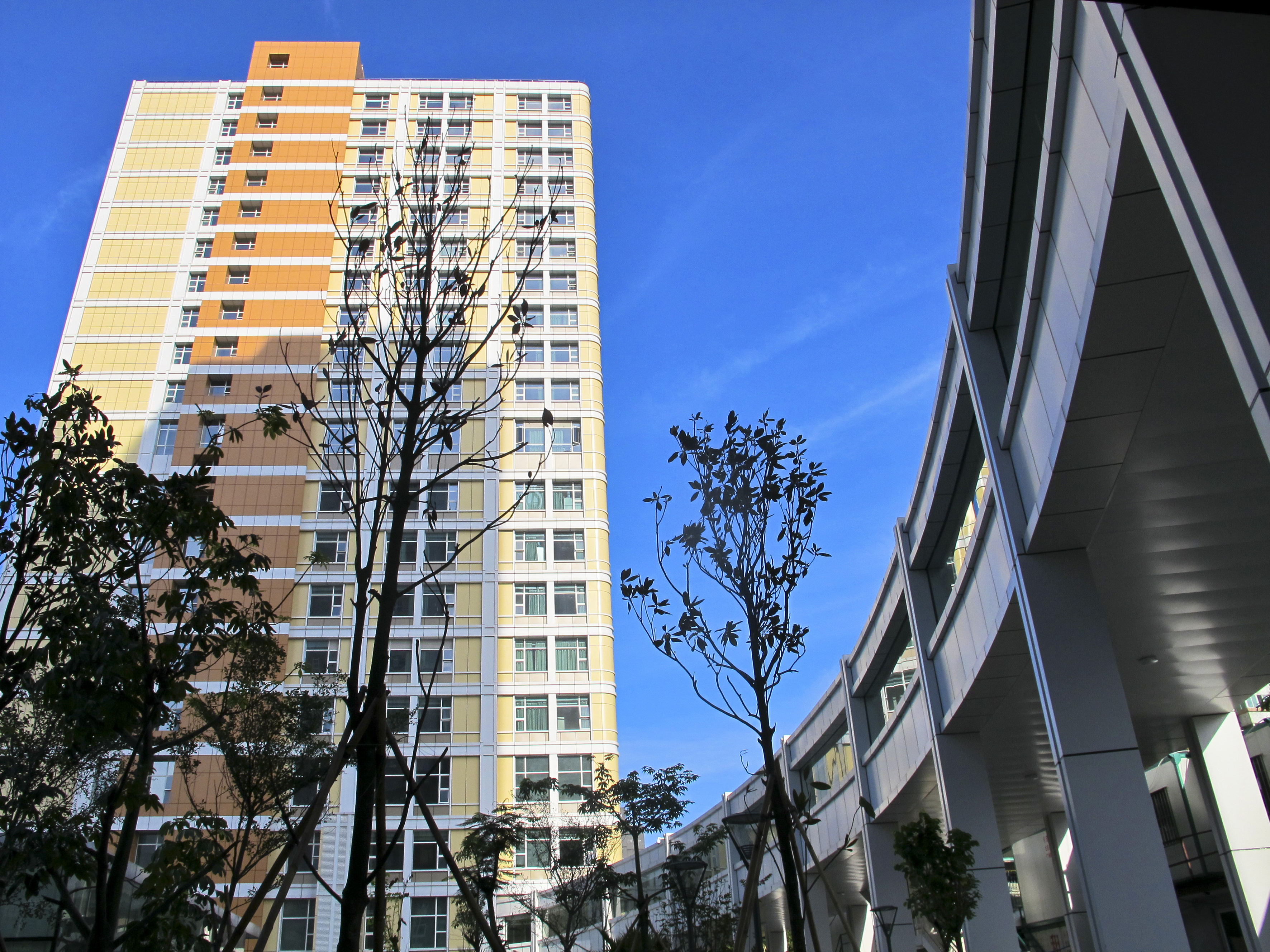 中山大学肿瘤防治中心 western buidling